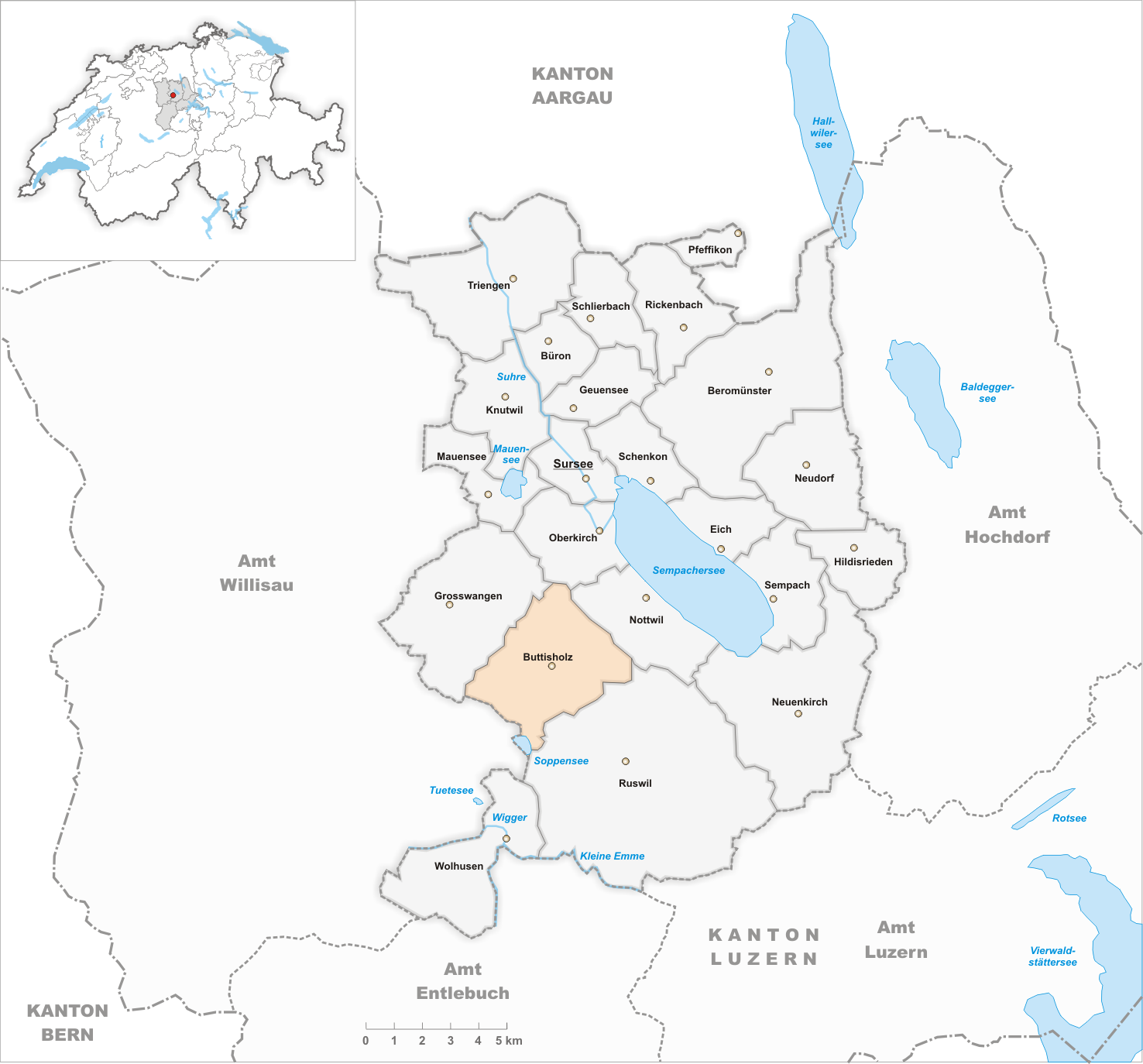 Municipality Buttisholz